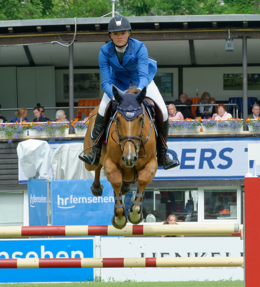 CSIYH* int. Springprüfung nach Strafpunkten und Zeit Internationales Pfingstturnier Wiesbaden 2015 The making of this document was supported by the Community-Budget of Wikimedia Germany.